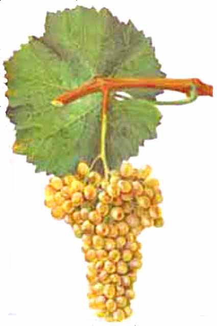 Variety Verdehlo